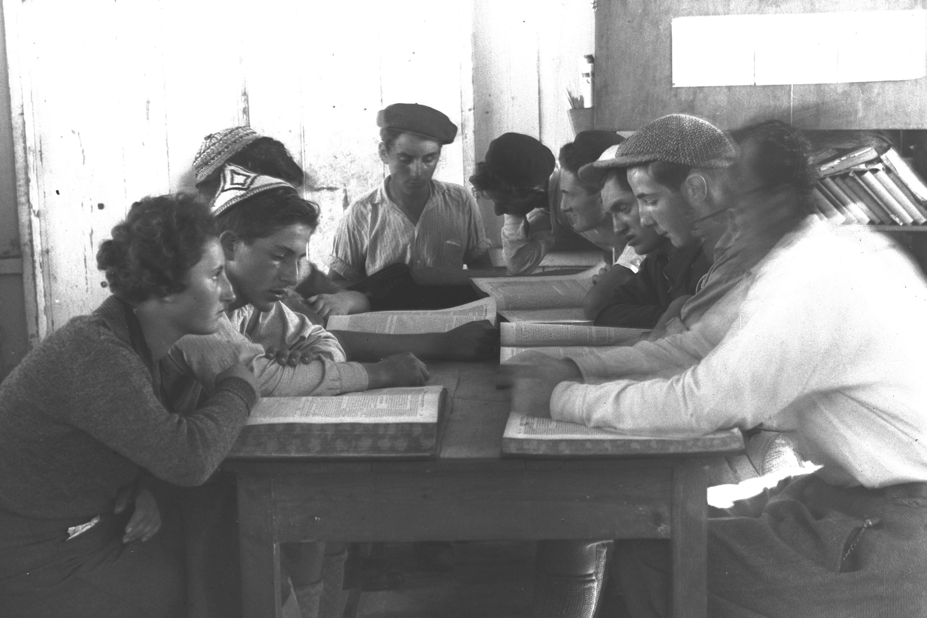 MEMBERS OF "KVUTZAT RODGES" STUDYING THE "GEMARA". מתיישבים לומדים גמרא בקבוצת רודגס.